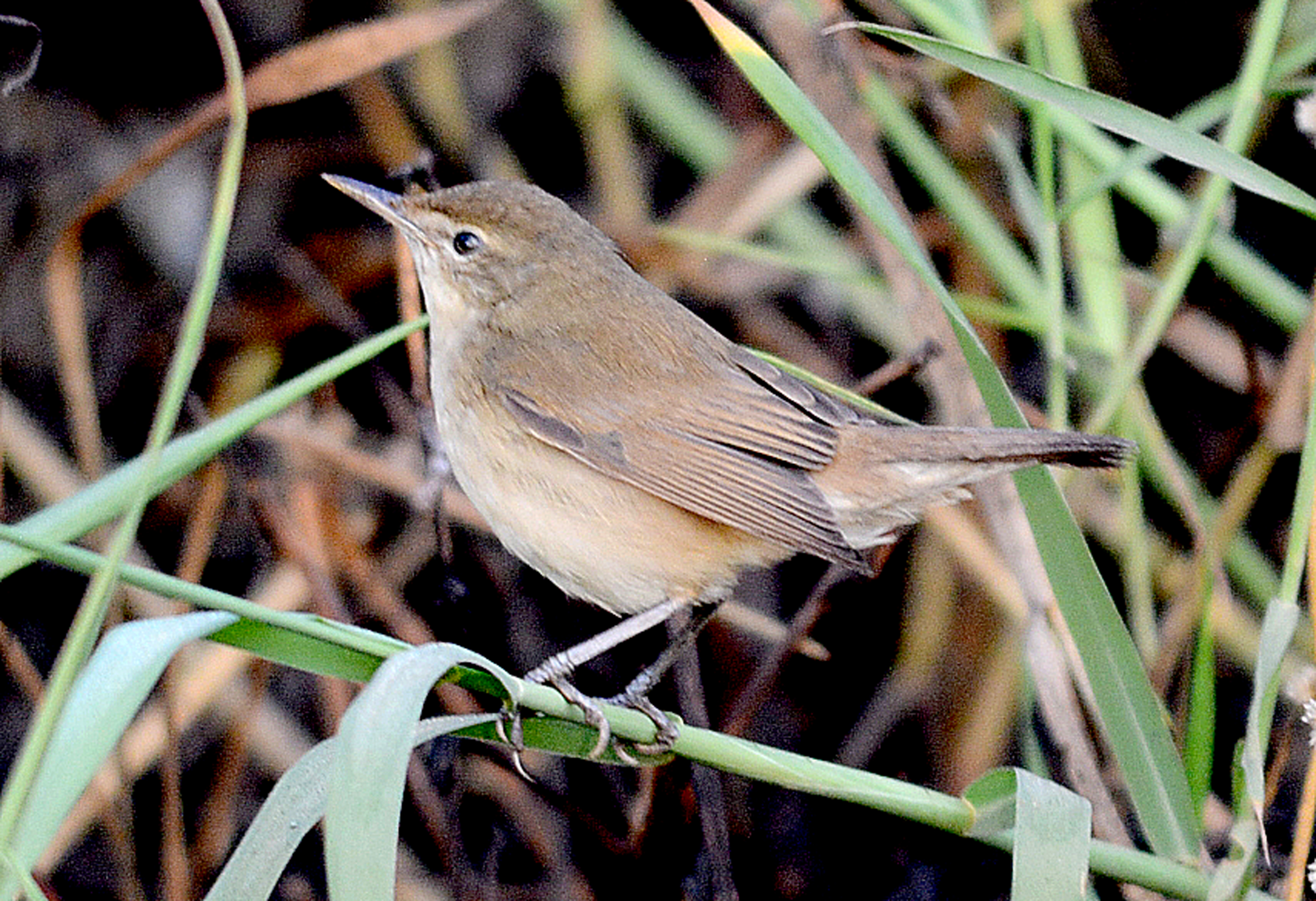 Blyth's Reed Warbler Acrocephalus dumetorum by Dr. Raju Kasambe